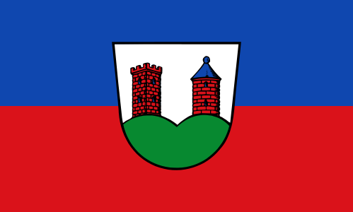 Flag of the German municipality of Gleichen.